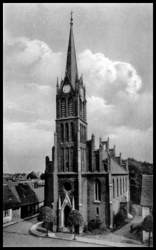 Gothic revival church in Ińsko (non existent).